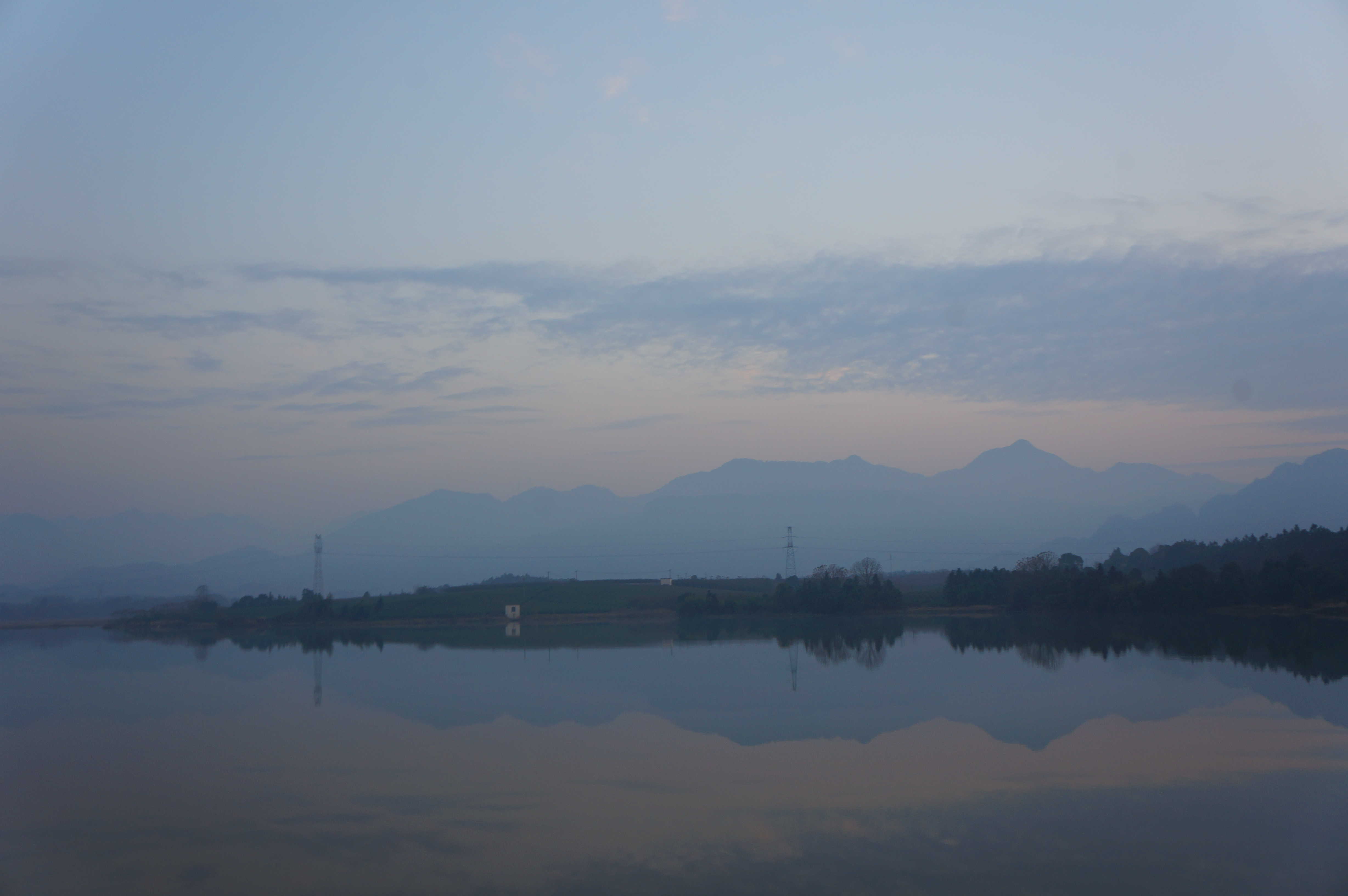 201612 Jiufeng Mountain in Tangxi